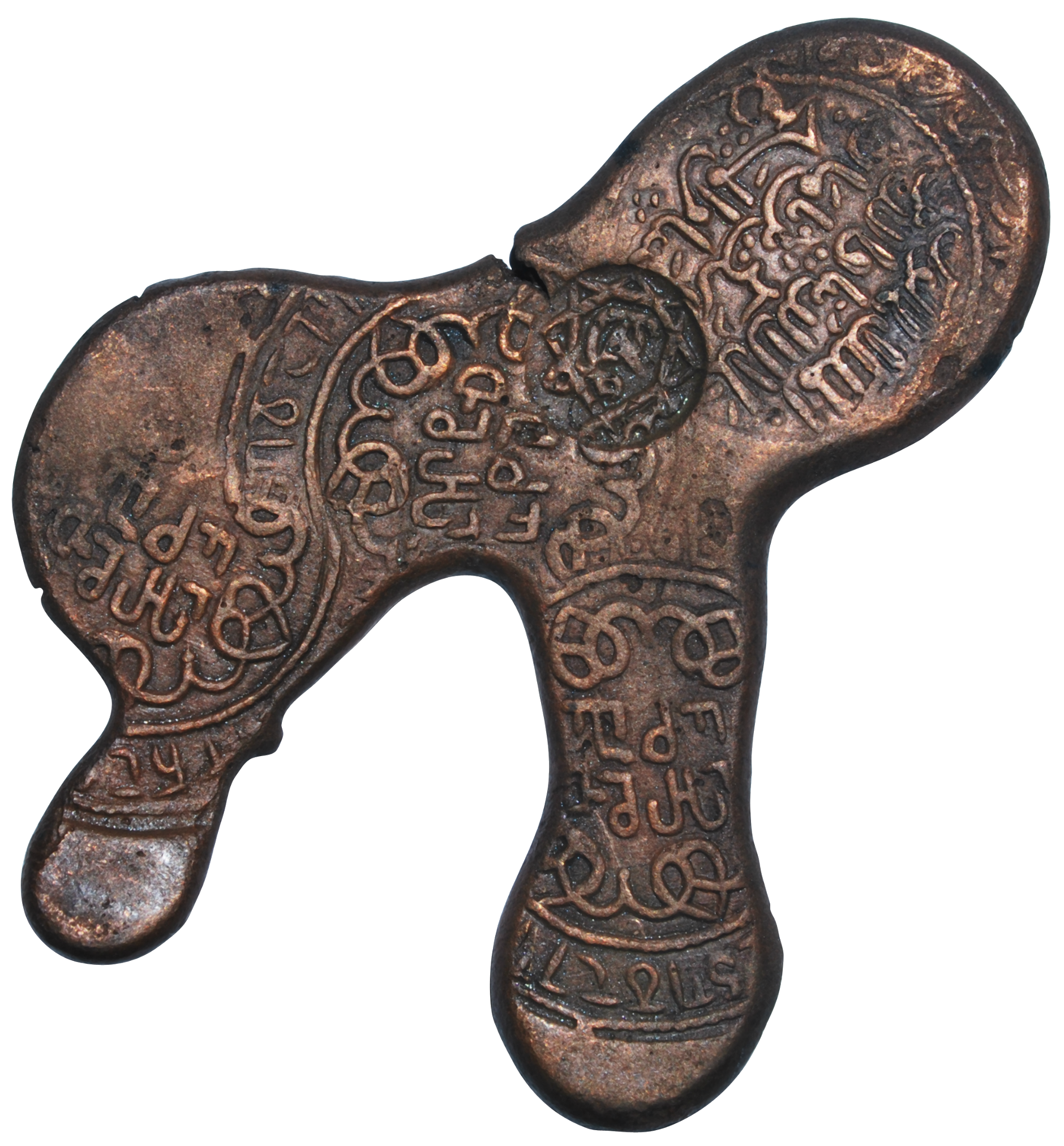 Coin of King George IV of Georgia "Lasha", 1210 AD.